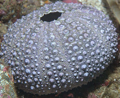 Mesocentrotus franciscanus - Los Angeles, California, United States